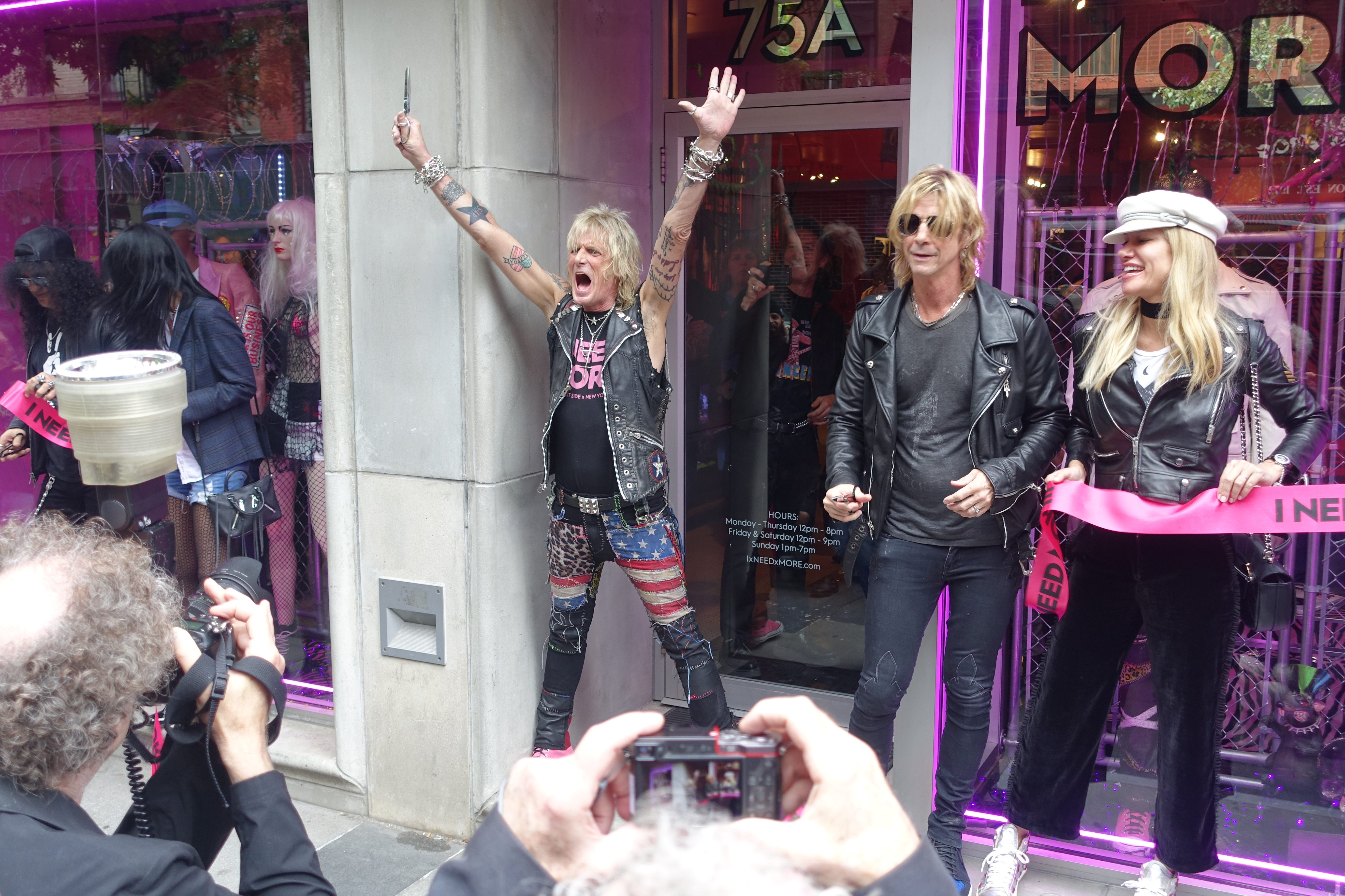 Jimmy Webb (pictured center) cutting the ribbon to open I NEED MORE alongside Slash and Duff from Guns N' Roses.